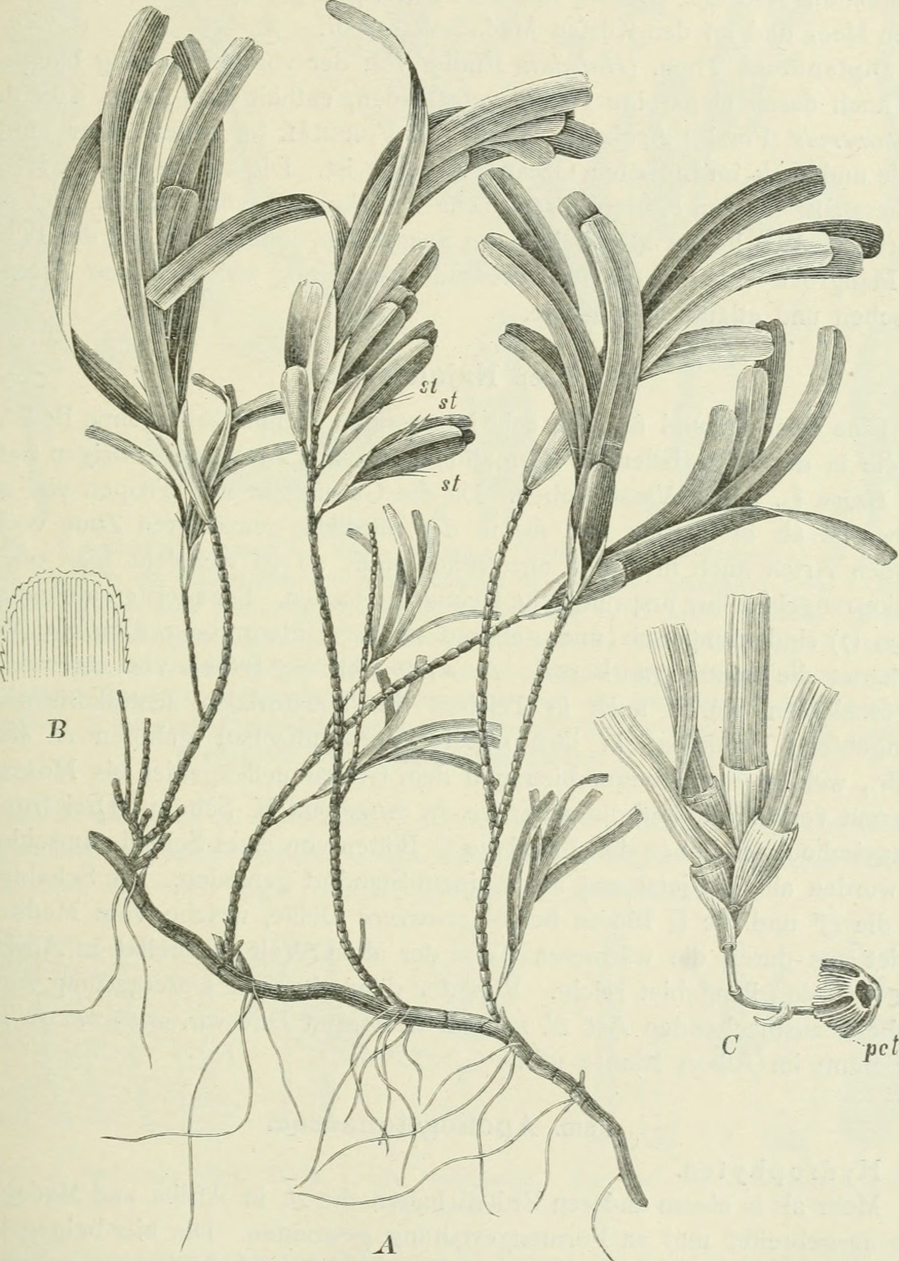 Title: Die Pflanzenwelt Afrikas, insbesondere seiner tropischen Gebiete : Grundzge der Pflanzenverbreitung im Afrika und die Charakterpflanzen Afrikas Year: 1910 (1910s) Authors: Engler, Adolf, 1844-1930 Subjects: Botany Publisher: Leipzig : W. Engelman Text Appearing Before Image: Helobiae. — Potamogetonaceae. 97 ücria) Aschers. (Fig. 86) fehlt im Roten Meer, erstreckt sich aber bis zu den Kanarischen Inseln und an den Küsten Nordwestafrikas bis Senegambien. Von dem Nordende des Roten Meeres können wir bis an die Mündung des Luabo- River an der Mossambikküste und bis an die Küsten der malegassischen Insehi C. cüiata (Koenig) Ehrenb. (Fig. 87) verfolgen, welche sichelförmige Blätter Text Appearing After Image: / A Fig. 87. Cymodocea ciliata (Koenig) Ehrenb. A ganze Pfl., verkleinert, st heri'orragende N. der 9 BL; B Spitze eines Laubb. in nat. Gr. (nach Hemprich und Ehrenberg, Symbolae physicae, Botanica I, tab. VI); C »Natiirl. Steckling» von Cymodocea antarctica Endl., /ci*Kammblatt, nat. Gr. Engler Charakterpflanzen Afrikas. I. »